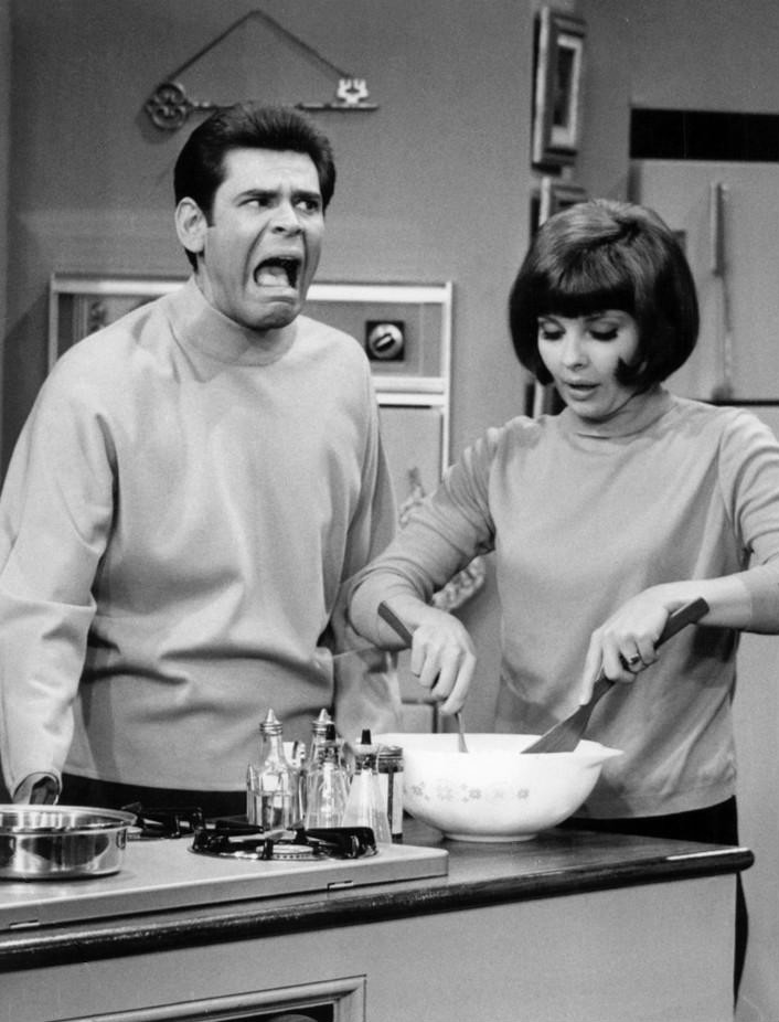 Photo of Joby Baker and Julie Parrish as Dave and Linda Lewis from the television program Good Morning World.